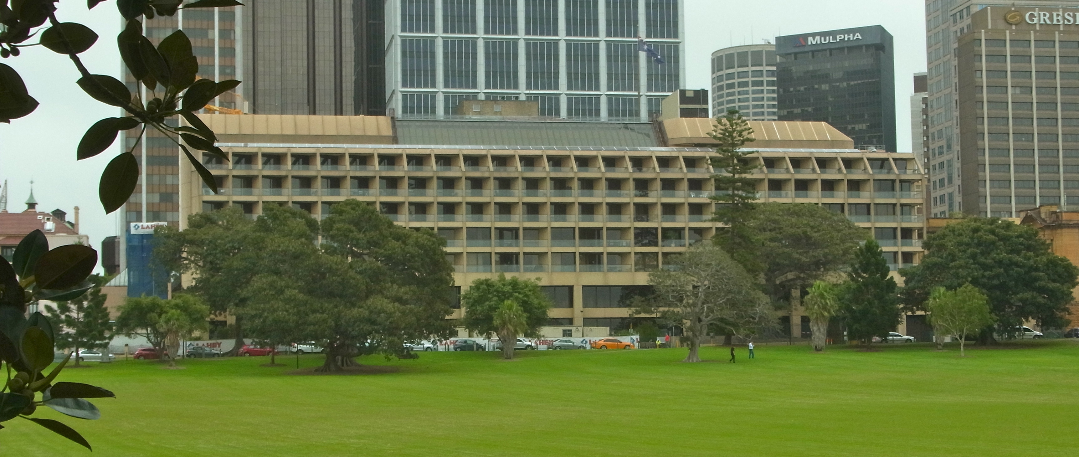 View of new building to NSW Parliament Sydney built c1980